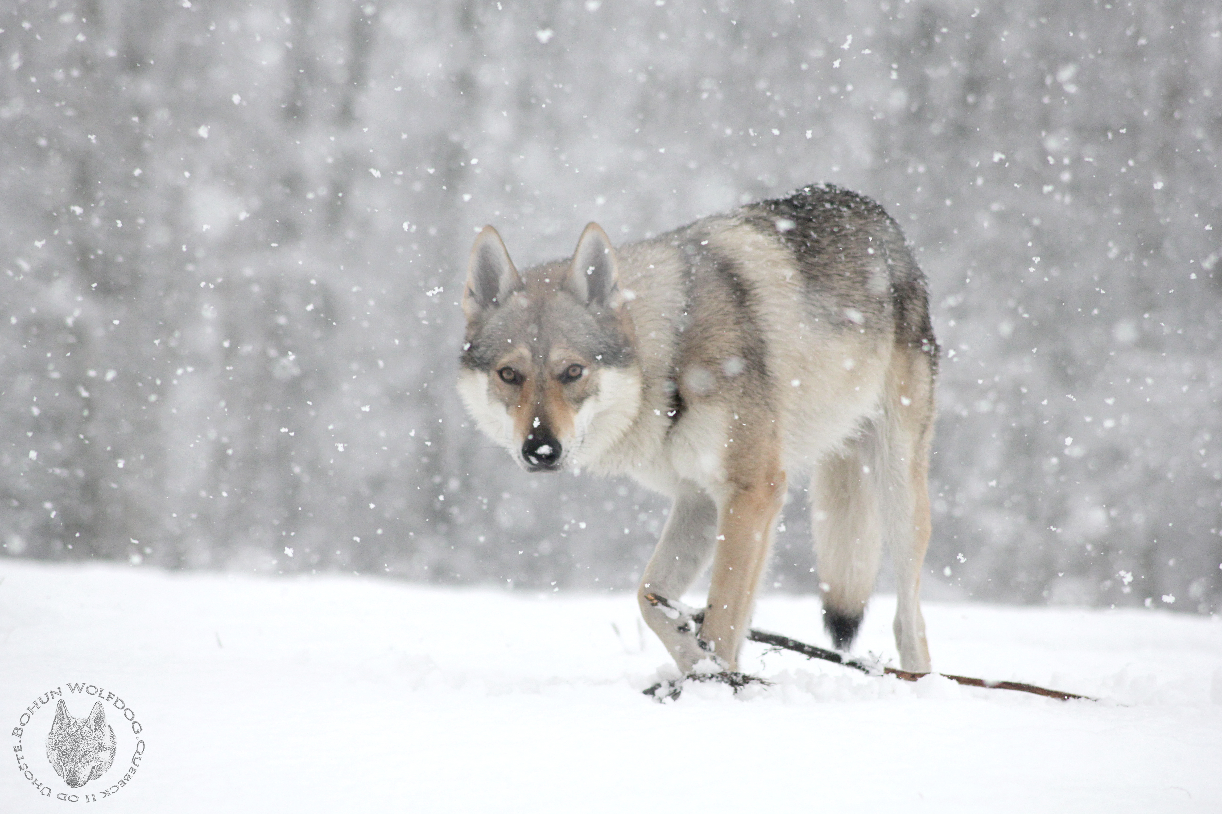 Czechoslovakian Wolfdog Bohun ( QUEBECK II od Úhoště )